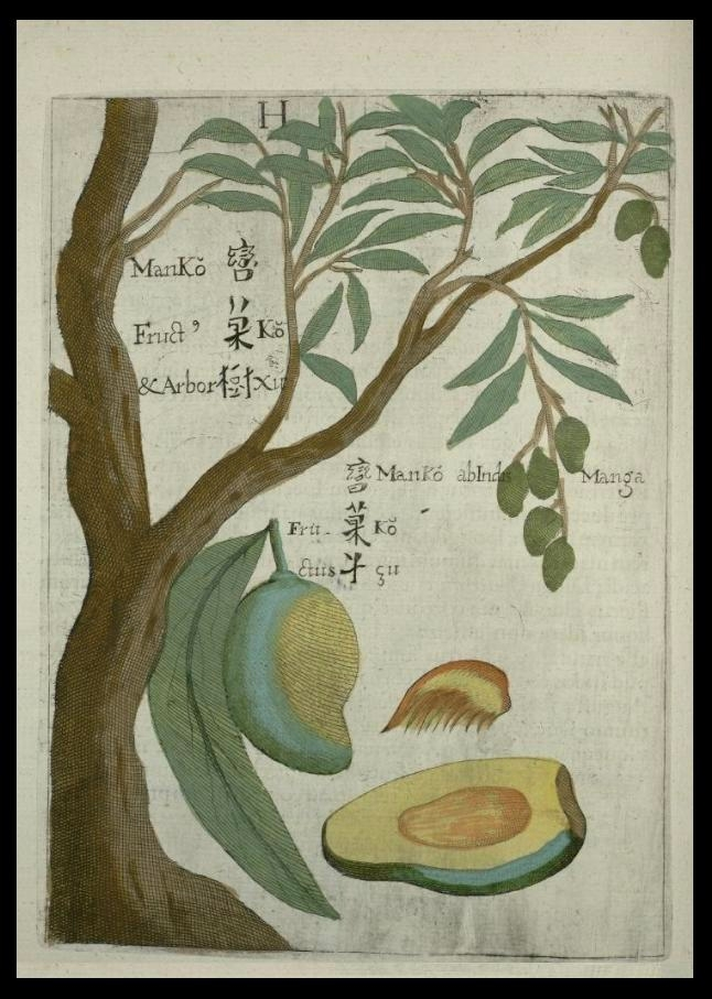 One of the earliest natural history books about China. Jesuit Missionary author. (obviously includes some non-Chinese {and non-floral} species)